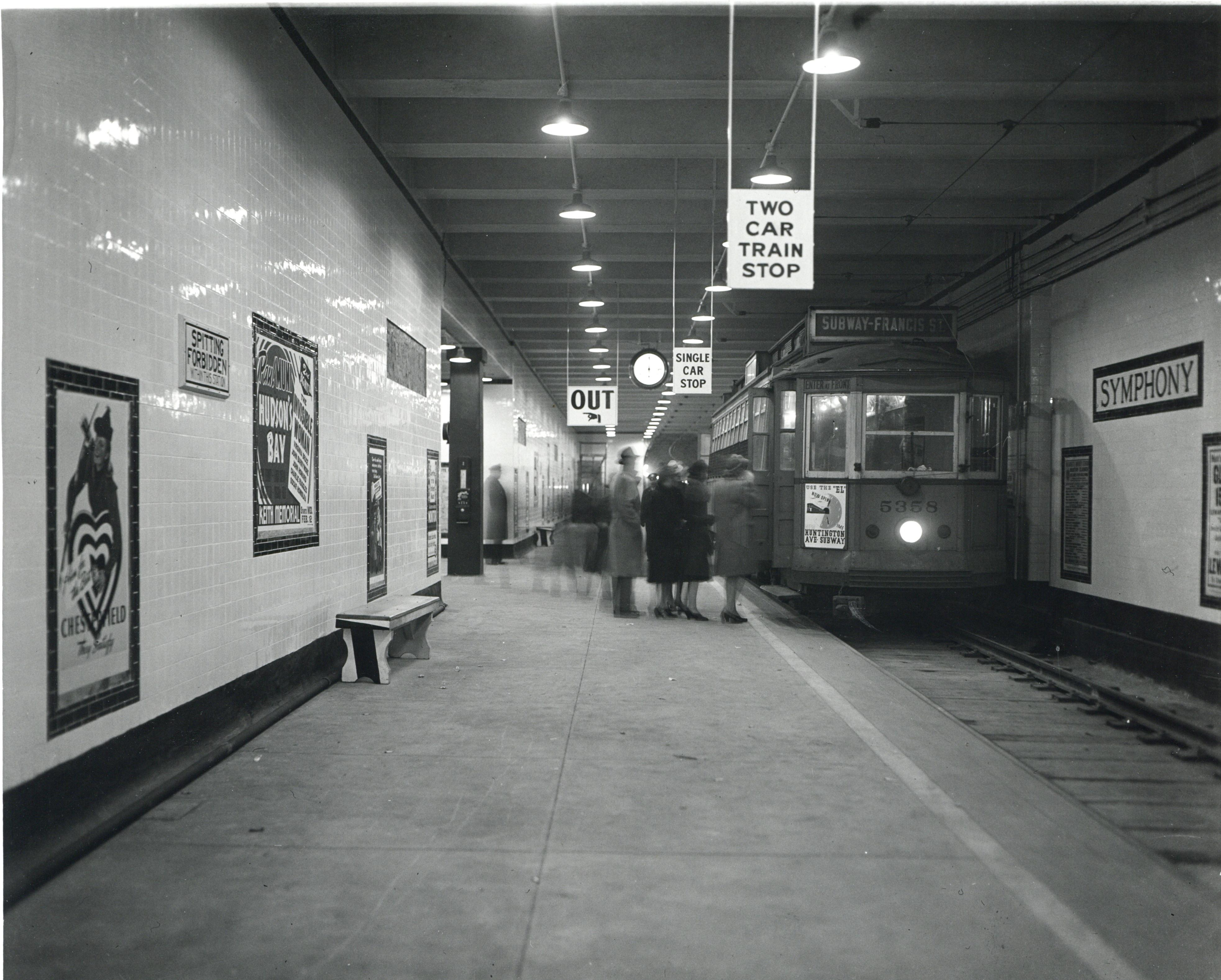 Type 4A2 car #5358 at Symphony station shortly after the station's 1941 opening. The car is signed as a Francis Street (Brigham Circle) turnback.